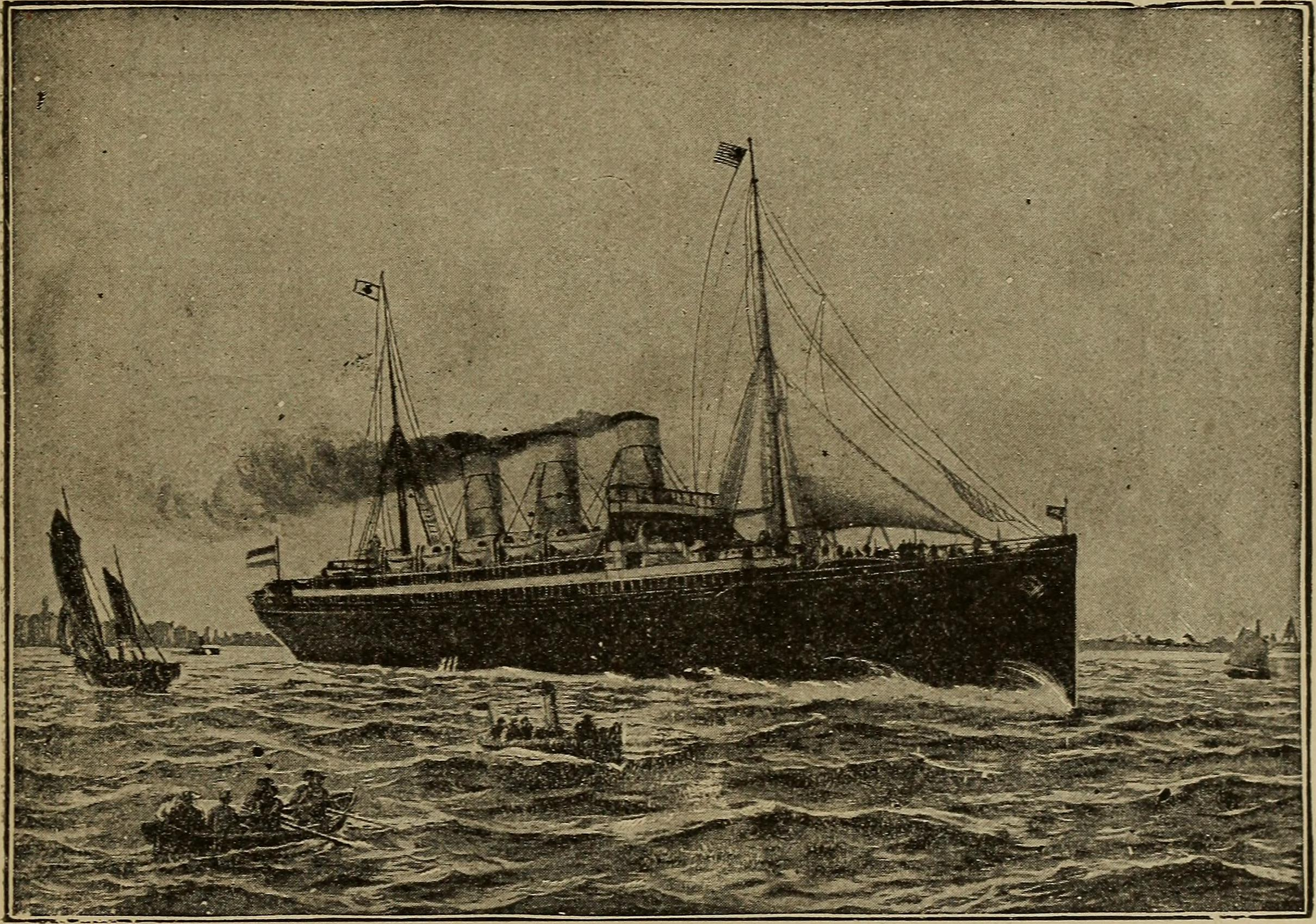 Title: The World's Columbian exposition, Chicago, 1893 Year: 1893 (1890s) Authors: White, Trumbull, 1868-1941 Igleheart, William, (from old catalog) joint author Subjects: World's Columbian Exposition (1893 : Chicago, Ill.) Publisher: Philadelphia and St. Louis, P.W. Ziegler & co Text Appearing Before Image: COIyUMBIA BICYCIvES. Exhibit of Pope Manufacturing Co. railway equipments ; models of ocean steamers, both passenger andwar; and all sorts of modern carriages, bicycles and other modern TRANSPORTATION. 275 transportation appliances. This exhibit not only extends from thecentral aisle to the front of the building, but also reaches well intothe annex. Facing the French exhibit is the model and exhibit of the town Text Appearing After Image: FUBRST BISMARCK.—^HAMBURG AMERICAN PACKET CO. of Pullman. It is built to scale and is always a centre of interestfor the many who are curious to know the plans and accomplish-ment of this practical example of a perfect city. Next is a modelticket-office fitted up by the firm of Rand, McNally & Co., of Chicago,the noted printers of railway tickets, folders and maps. The centreof the building is now reached, and here in a circular open space isthe exhibit of the Otis Company, consisting of eight passengerelevators. This vertical transportation department conveys curiousvisitors to the top of the building, whence a splendid view may behad. Great Britain comes next with her colonies, Canada and Aus-tralia, occupying four sections, extending entirely across the building 276 TRANSPORTATION. and annex. The most interesting of the exhibits here is the loco-motive, Lord of the Isles, built in 1851 for the first Worlds Fair,which has been in continuous use ever since. There is also a KALE